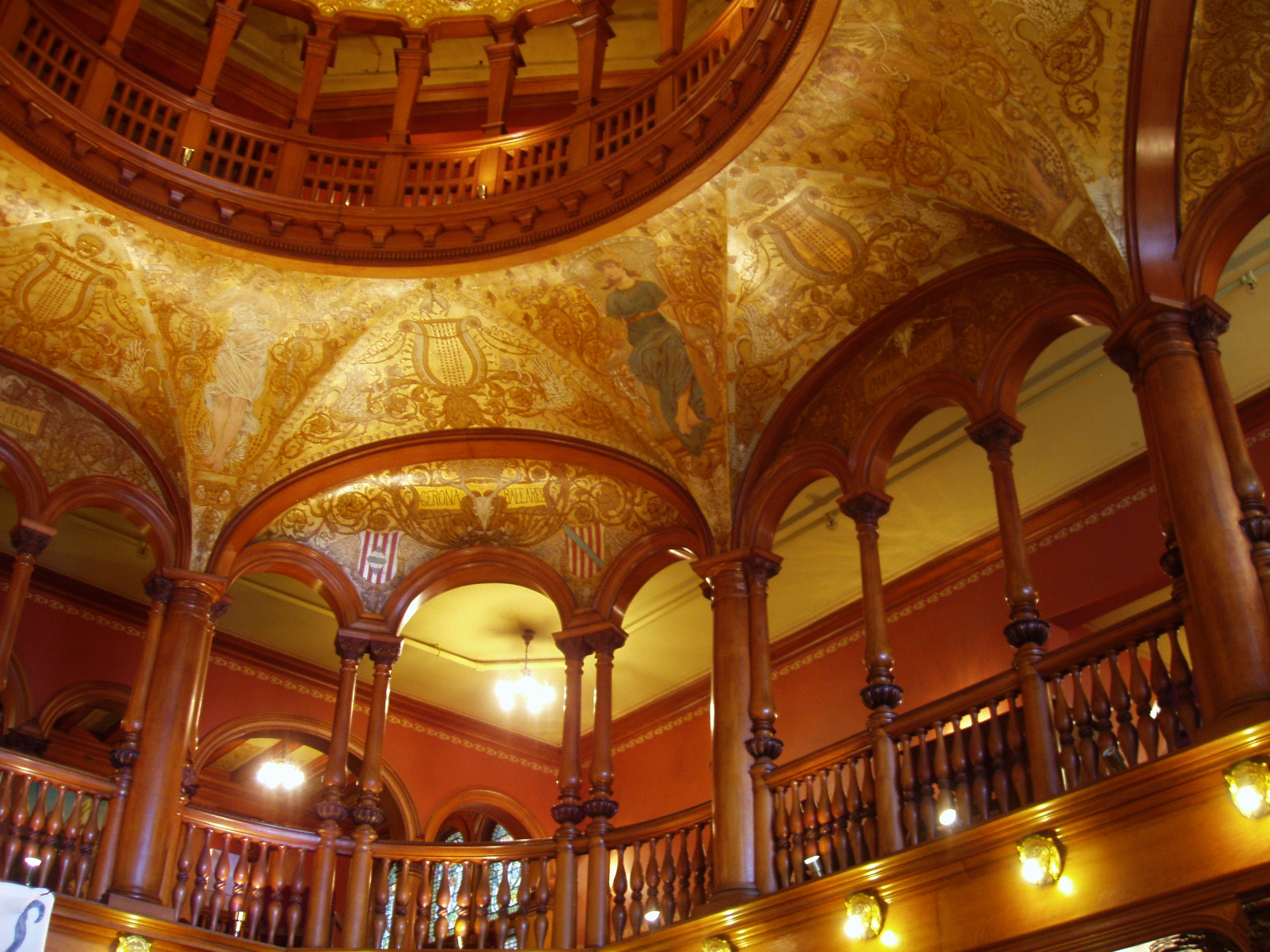 Inside the lobby of Flagler College, the former Ponce de Leon Hotel, in St. Augustine, Florida. Photograph taken by me.